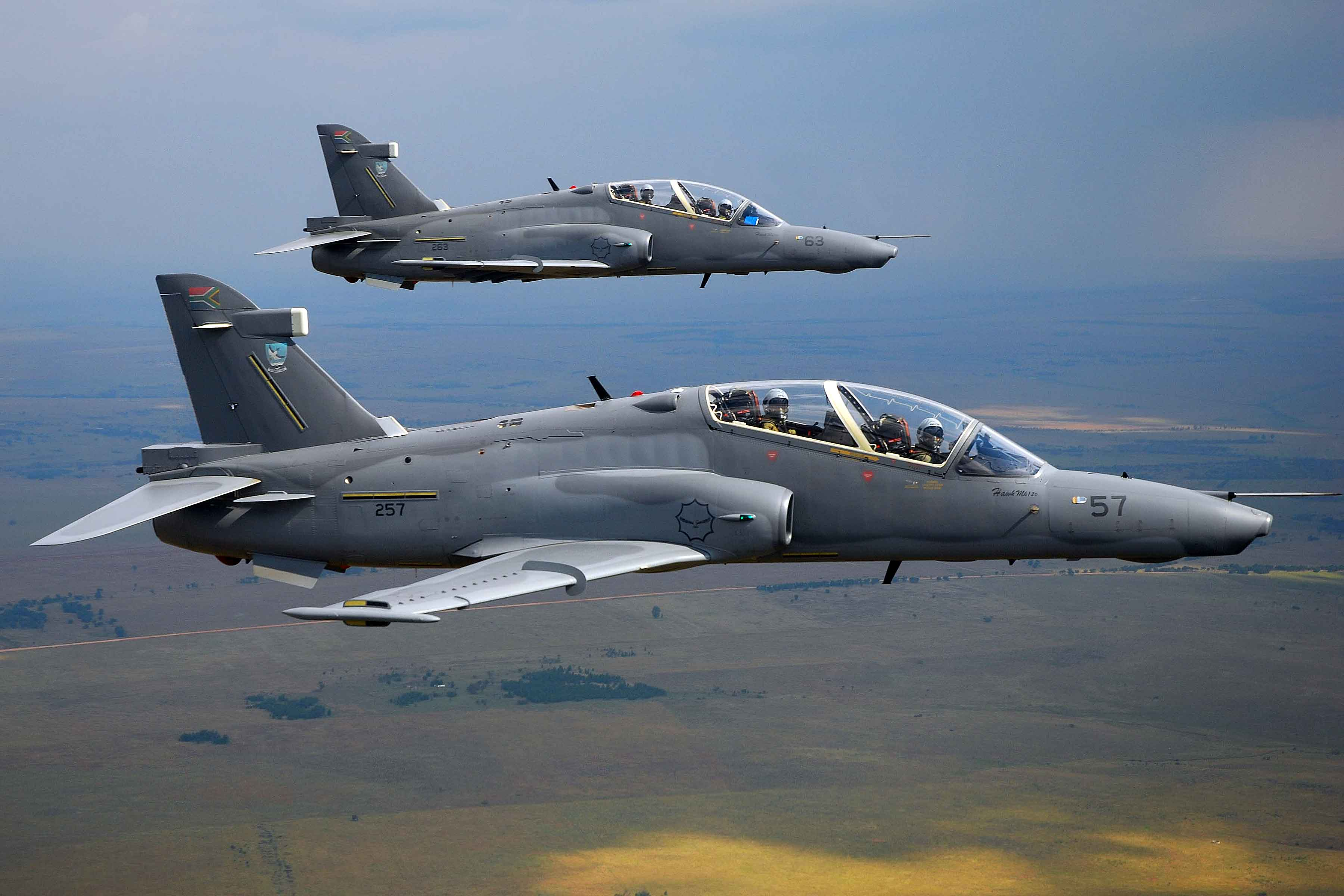 Excercise Shield 3: Security Forces demonstrate their readiness to secure airspace during the 2010 FIFA World Cup